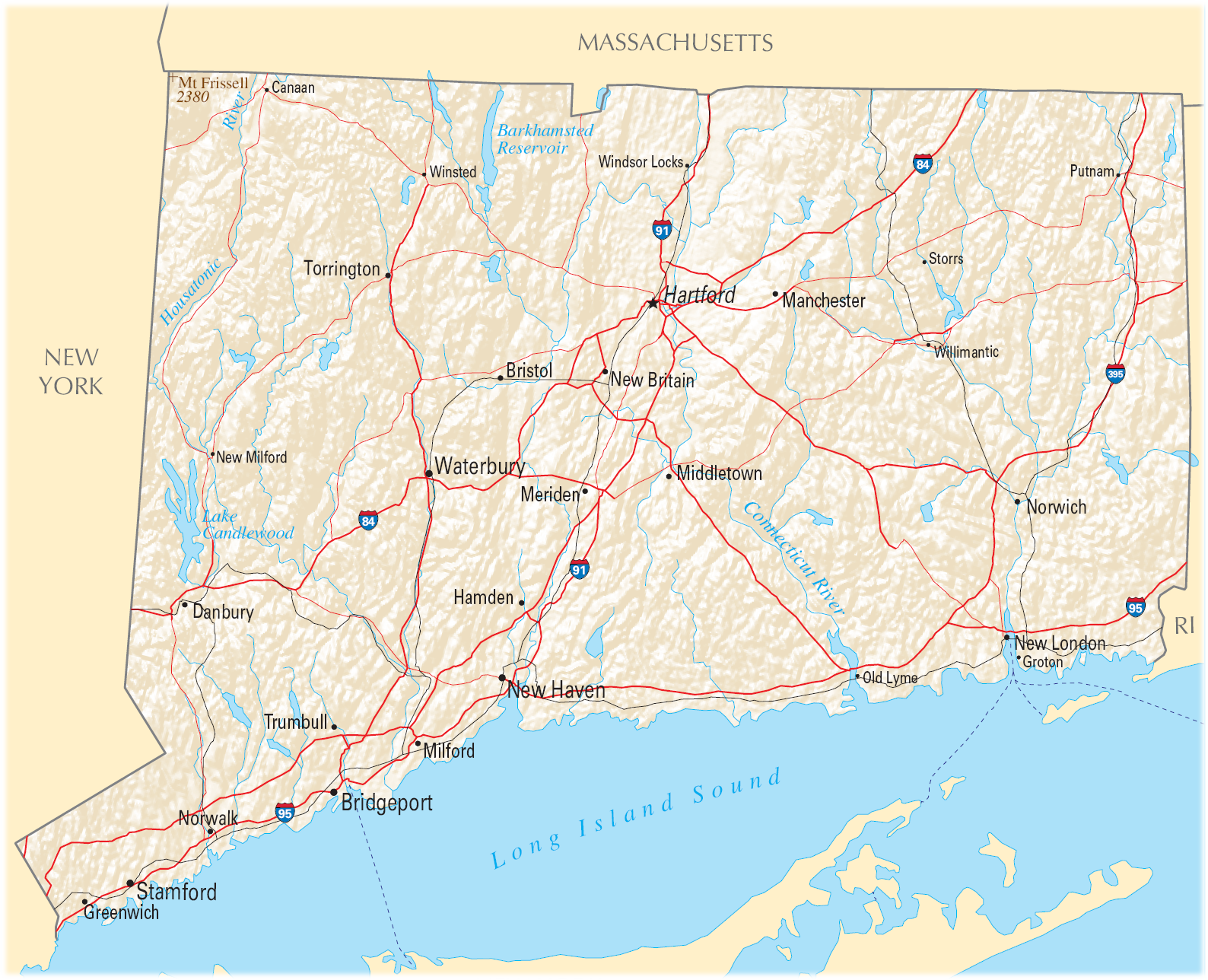 Cropped version of Image:Map_of_Connecticut_NA.png, a pd-US image.